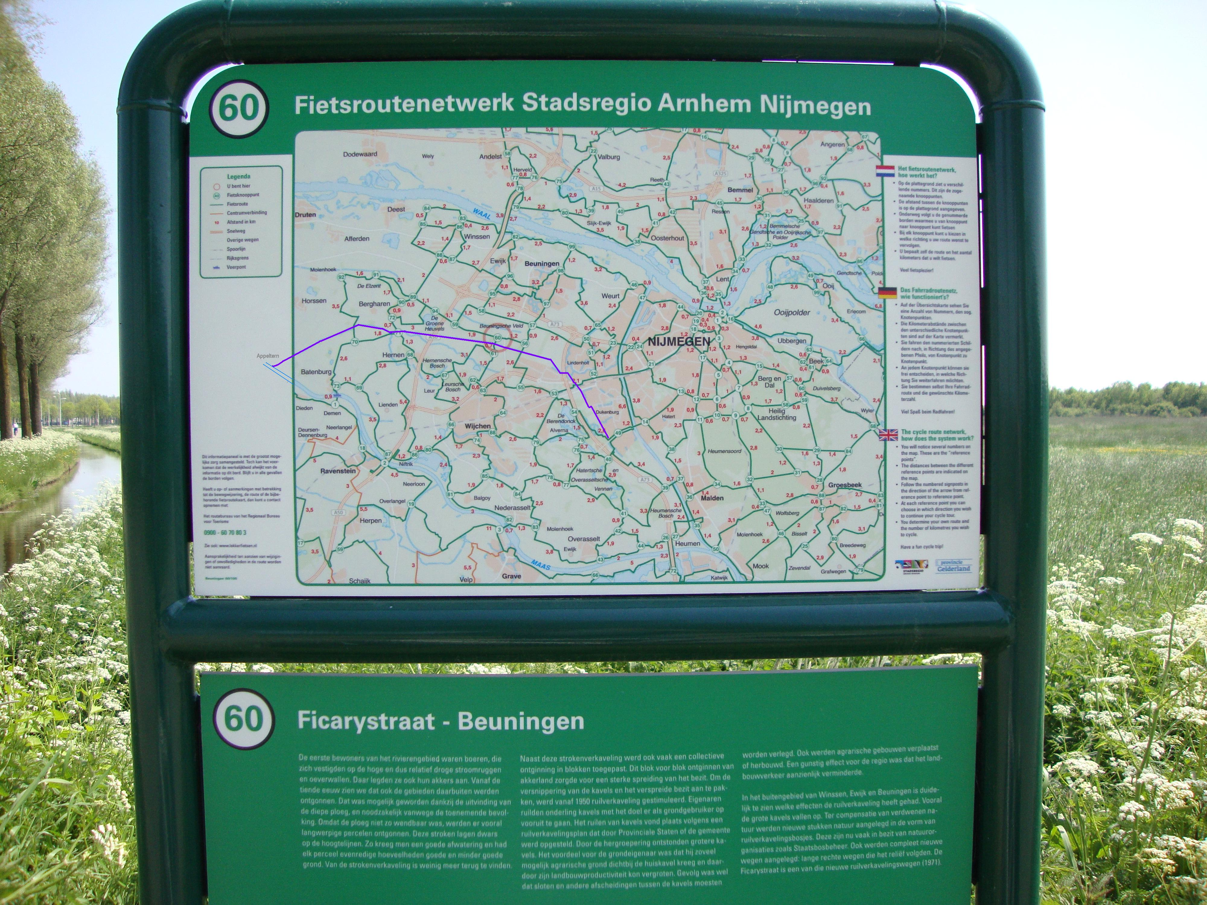 Photo of panel "cycleroute cityregio Arnhem-Nijmegen", with position of Nieuwe Wetering (Wijchen) shown by a added line in the map on the photo.